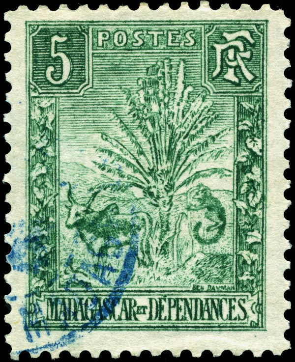 Madagascar 5c stamp of 1903